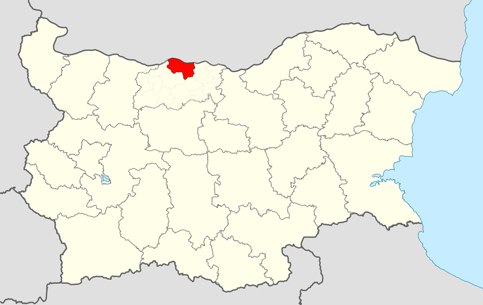 Location map of Gulyantsi Municipality within Pleven Province, Bulgaria. Equirectangular projection, N/S stretching 130 %. Geographic limits of the map: N: 44.4° N S: 41.1° N W: 22.1° E E: 28.9° E